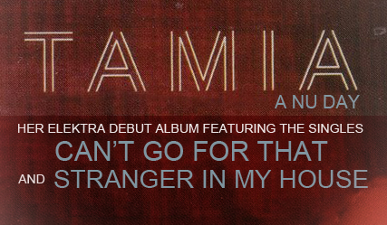 Promotional banner for the album "A Nu Day", R&B singer Tamias first release on the Elektra label